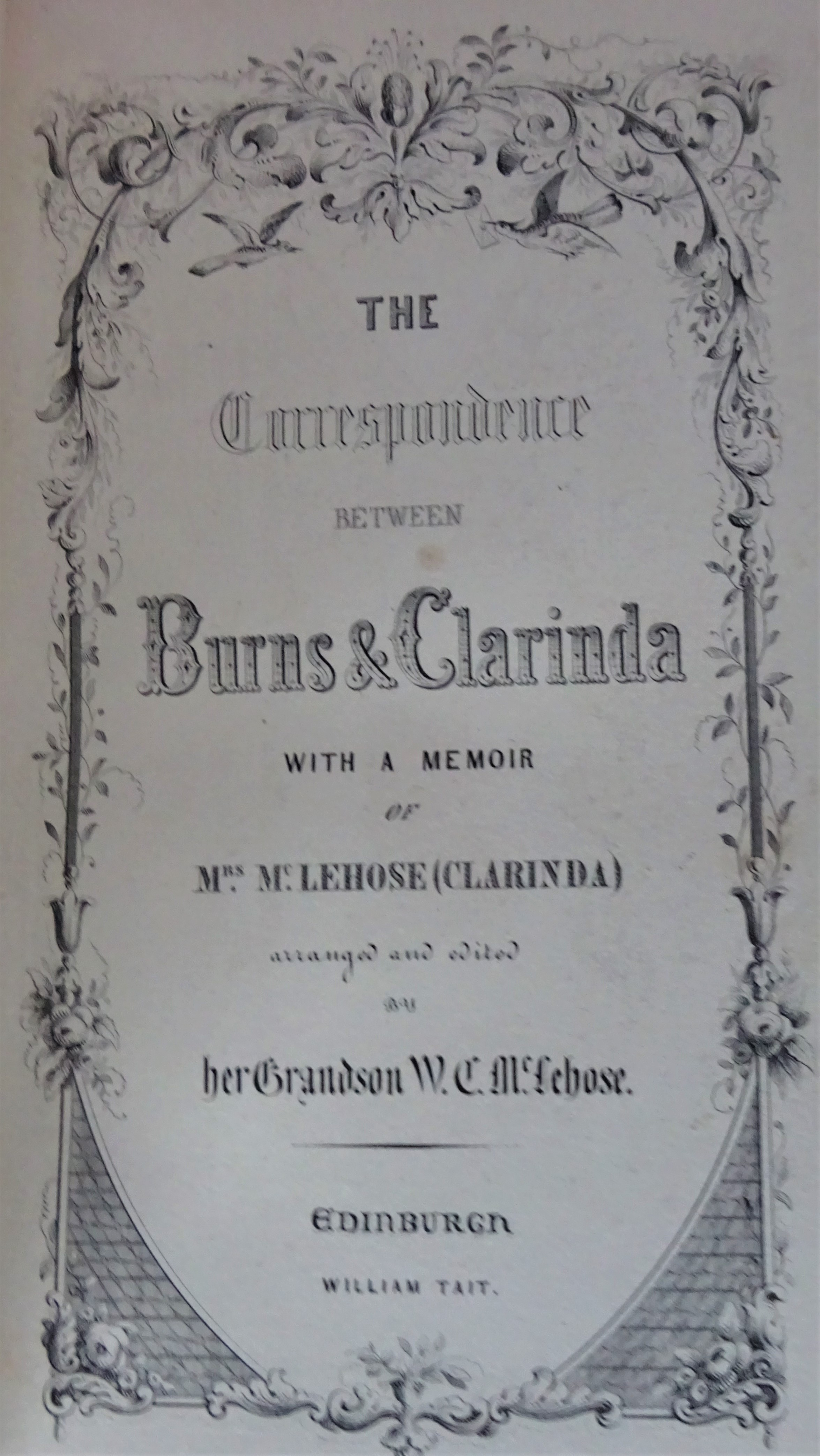 The Correspondence of Burns and Clarinda. 1843. With a Memoir of Mrs McLehose (Clarinda)